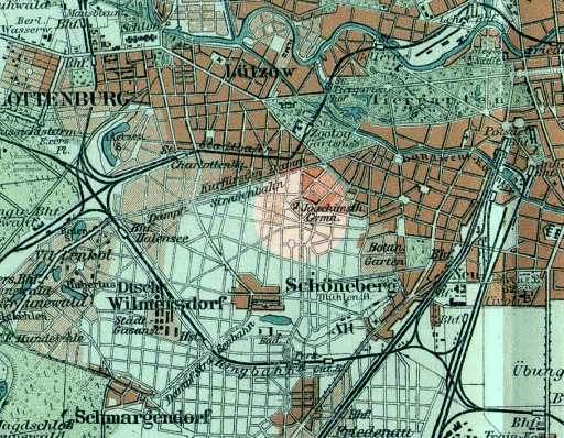 Position plan of the "Joachimsthalsches Gymnasium", Berlin 1894